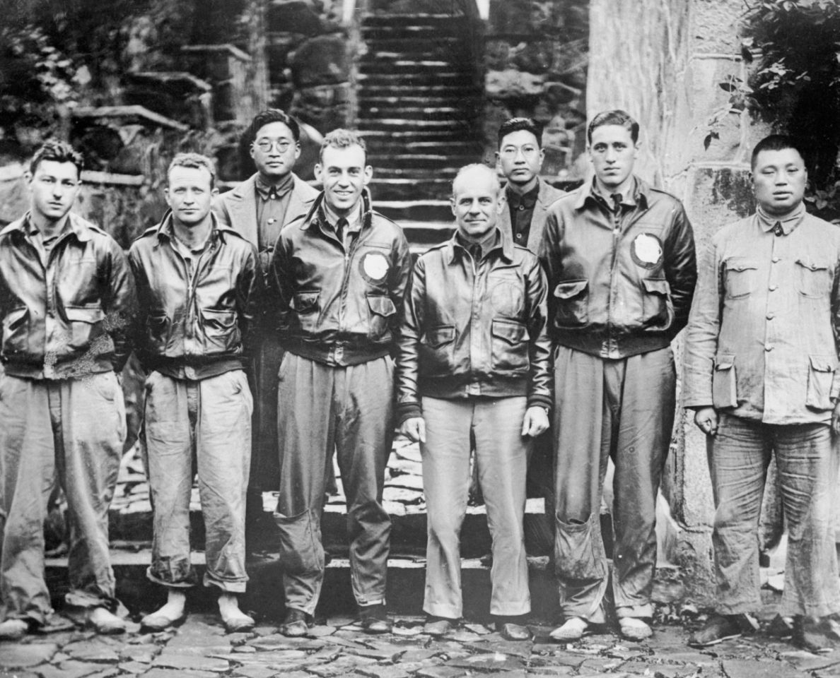 Major General Doolittle, his Tokyo bombing crew and some Chinese friends are pictured in China after the US Airmen bailed out following the Doolittle led air raid on Japan. Left to right, Staff sgt. F.A. Braemer, bombardier, Seattle; Staff Sgt. P.J. Leonard, Engineer-Gunner, Denver, General Ho Yang Ling, Director of the Branch Government of Western Chekiang Province; First Lt. R.E. Cole. Co-Pilot, Dayton, Ohio, General Doolittle; Henry H.Shen, bank manager ; First Lt. H.A. Potter, Navigator, Pierre, South Dakota; Chao Foo Ki, Secretary of the Western Chekiang Province Branch Government ; Sgt. Leonard was killed in action in North America.